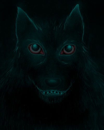 Black Dog, a supernatural dog that appears as an omen of great change.